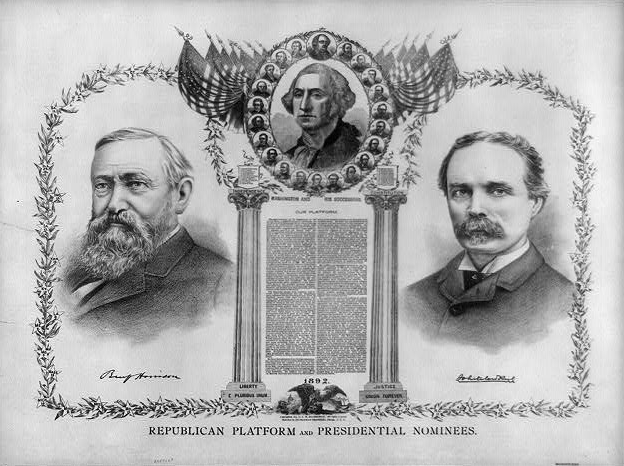 1892 Republican platform and presidential nominees.